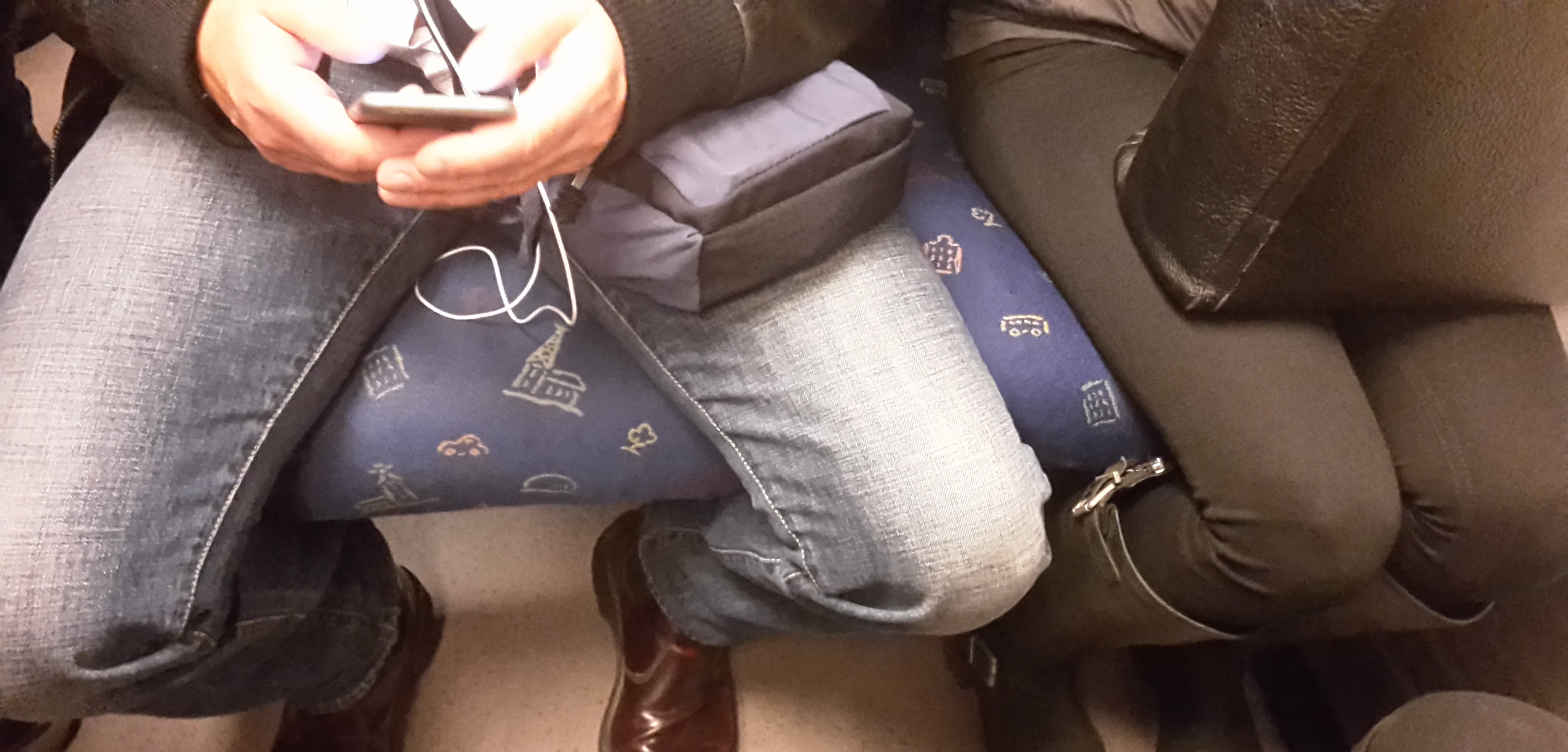 Example of manspreading on public transport. The person to the right is a woman. The person to the left is a man. Photo taken in the Stockholm Metro.